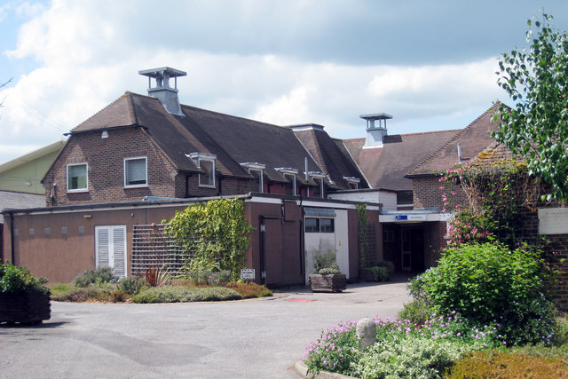 Oast Building at Horticulture Research International, New Road, East Malling, Kent